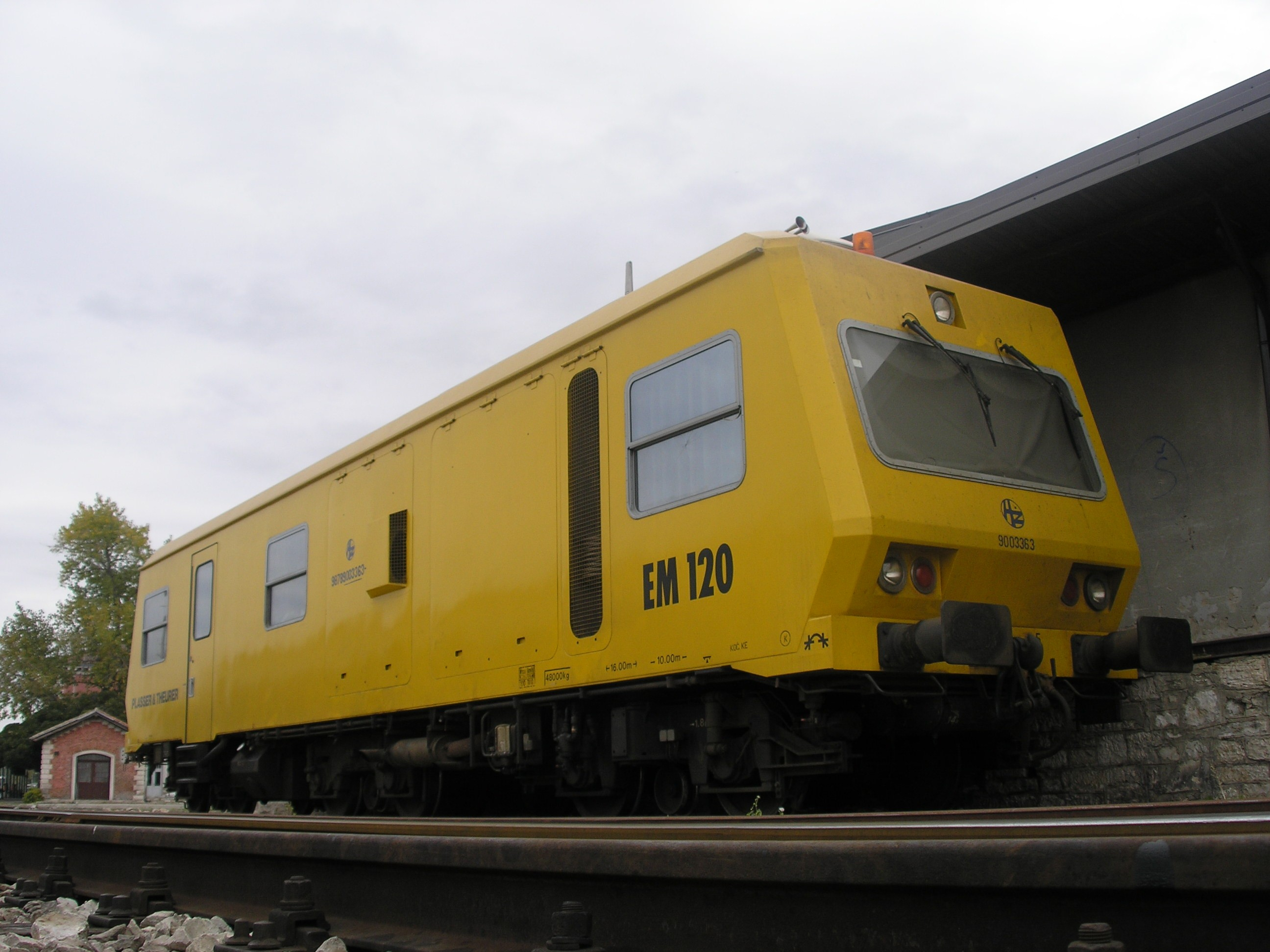 Plasser & Theurer EM 120 (HŽ 9003363) in Pula, Croatia